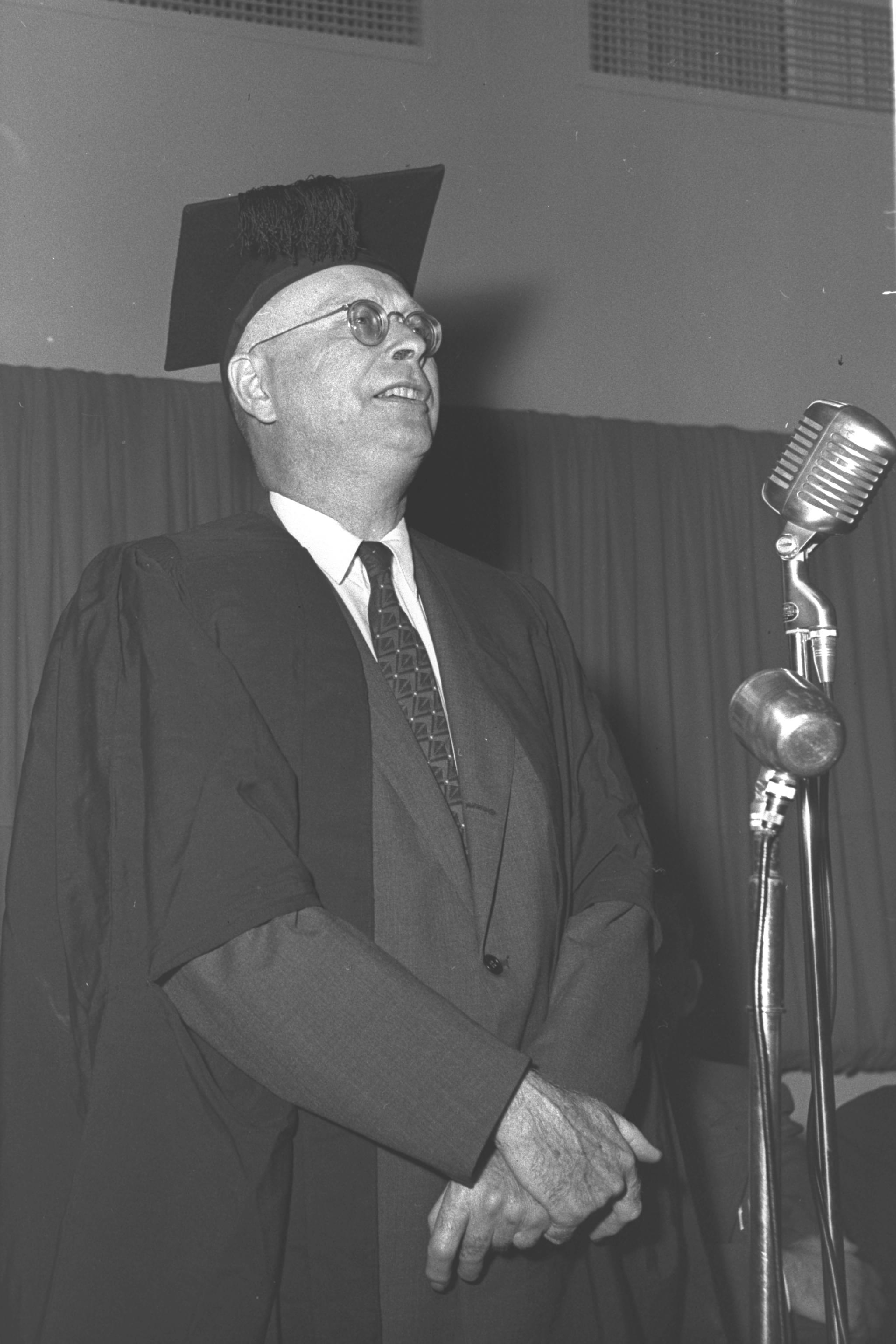 Original Description: PROF. WM. F.ALBRIGHT, REPLYING, AT CEREMONY OF CONFERMENT OF HONORARY DOCTORATES, BY HEBREW UNIVERSITY.